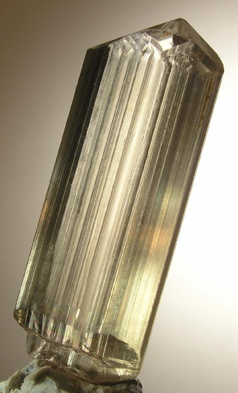 Diaspore Locality: Mugla Province, Aegean Region, Turkey (Locality at ) Size: thumbnail, 1.8 x .6 x .4 cm Diaspore (twinned) A stunning, twinned, crystal that has very good olive-green color, total gemminess, and glassy luster. Very good for the species and unusual in that the twinning is so tightly oriented along the c axis instead of the more common fishtail style from the locality. (color is better in person) 1.8 x .6 x .4 cm